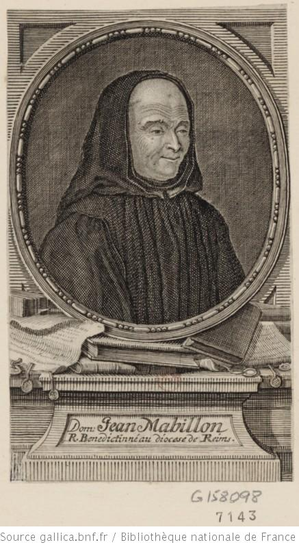 Jean Mabillon